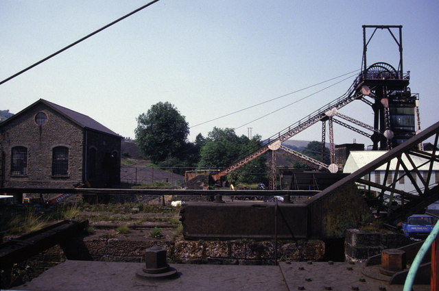 Deep Navigation Colliery, Treharris One winding house and head gear photographed from the foot of the other head gear. I'm stood on a high stone wall that formed the lower level of the original winding house. Two compressed air rope changing winches are down out of sight in the foundations. To my annoyance we missed a third winch that was presumably near the foot of the other head gear (should have looked). Looking back, it's amazing how the colliers accepted strange people wandering around their pits carrying cameras.